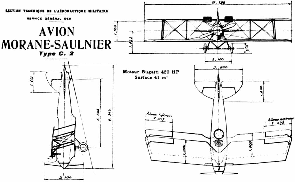 Morane Saulnier AN French World War 1 two seat biplane fighter